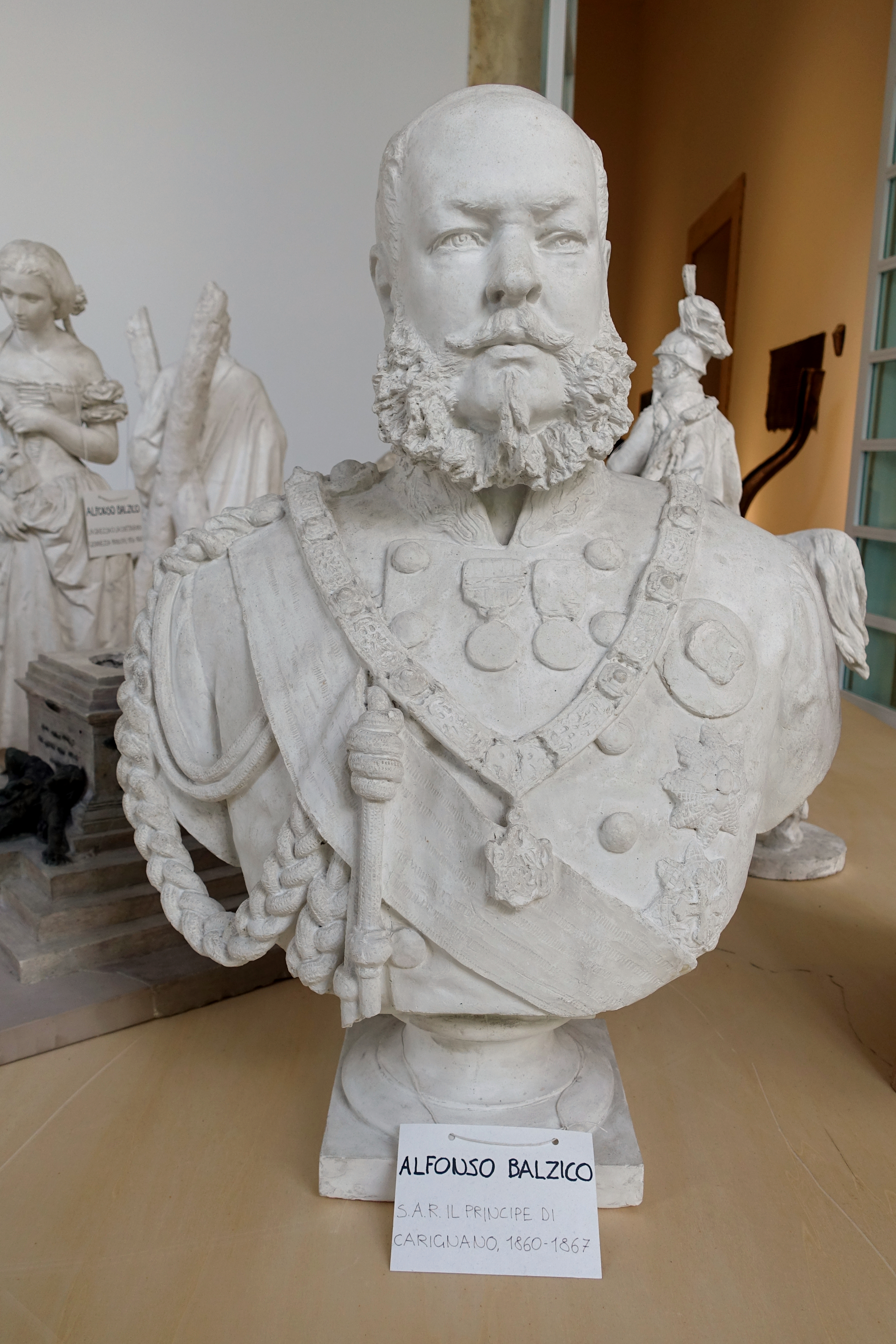 Exhibit in the Galleria nazionale d'arte moderna - Rome, Italy.